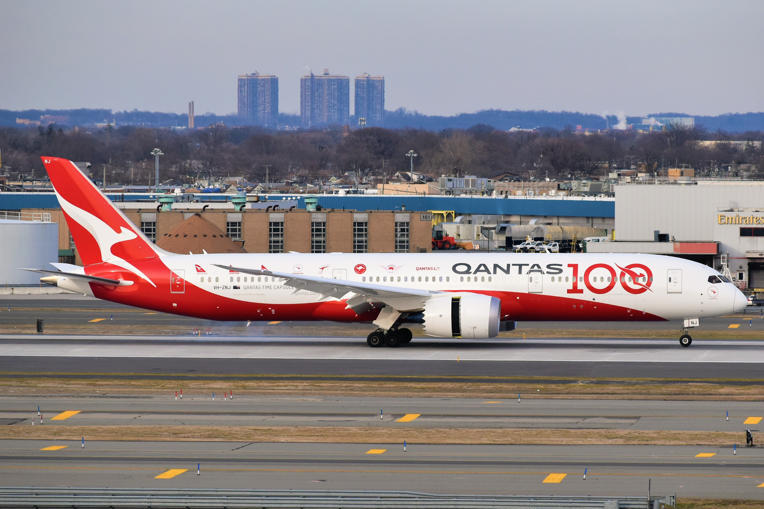 Operating Flight QF11, a Qantas Boeing 787-9 Dreamliner is landing on JFK Airport Runway 13L, in 100th Anniversary livery.